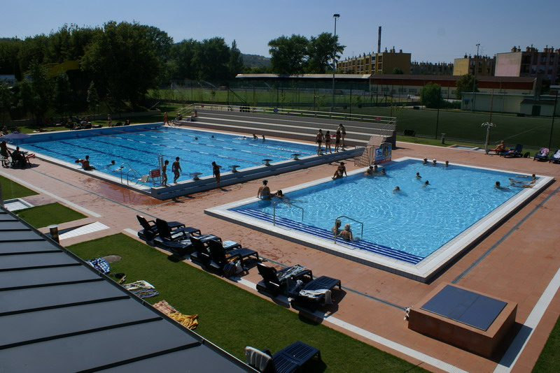 The swimming pool area behind the wiev of the stadion's tribune with the play-field.